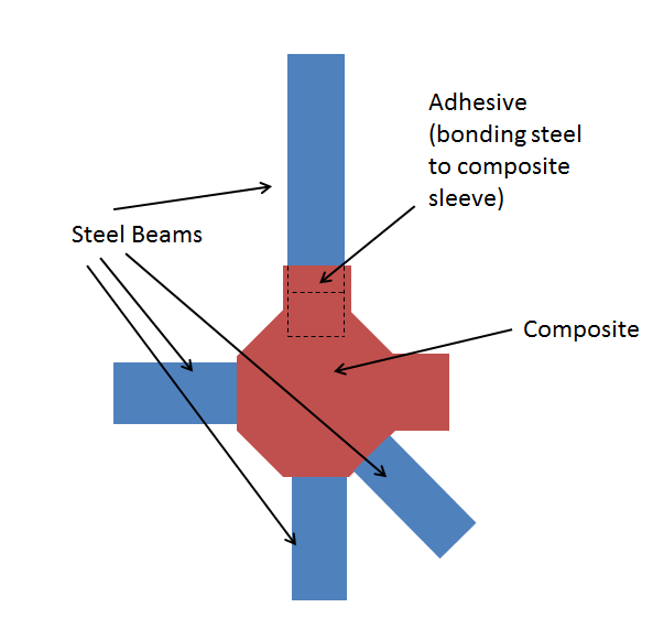 Steel rectangular tubing used for bus frames is welded at the intersections. Welding is replaced by the use of a CFRP node (red) that is adhesively bonded to the steel tubes (blue).